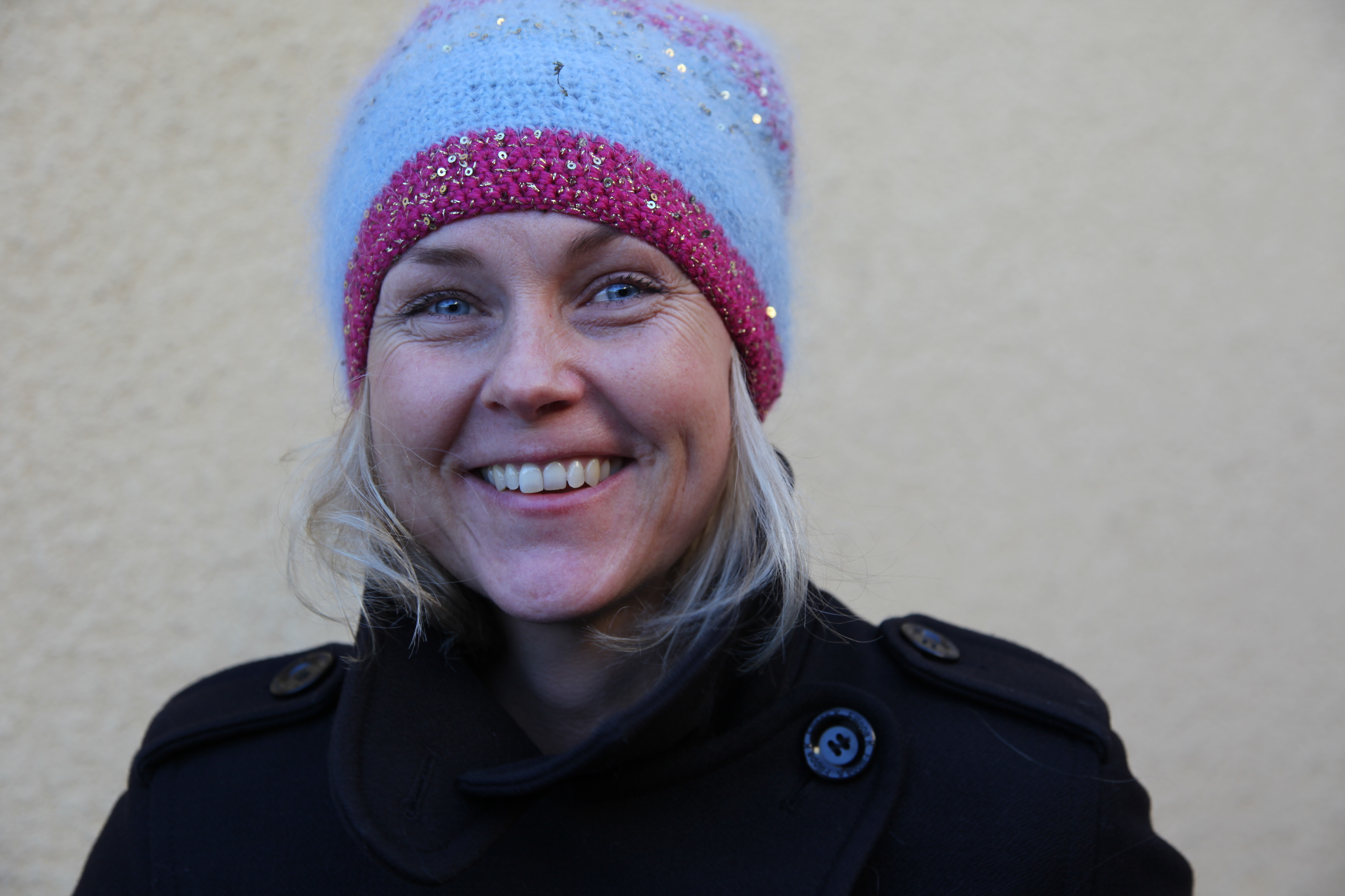 Director Linda Västrik 2013